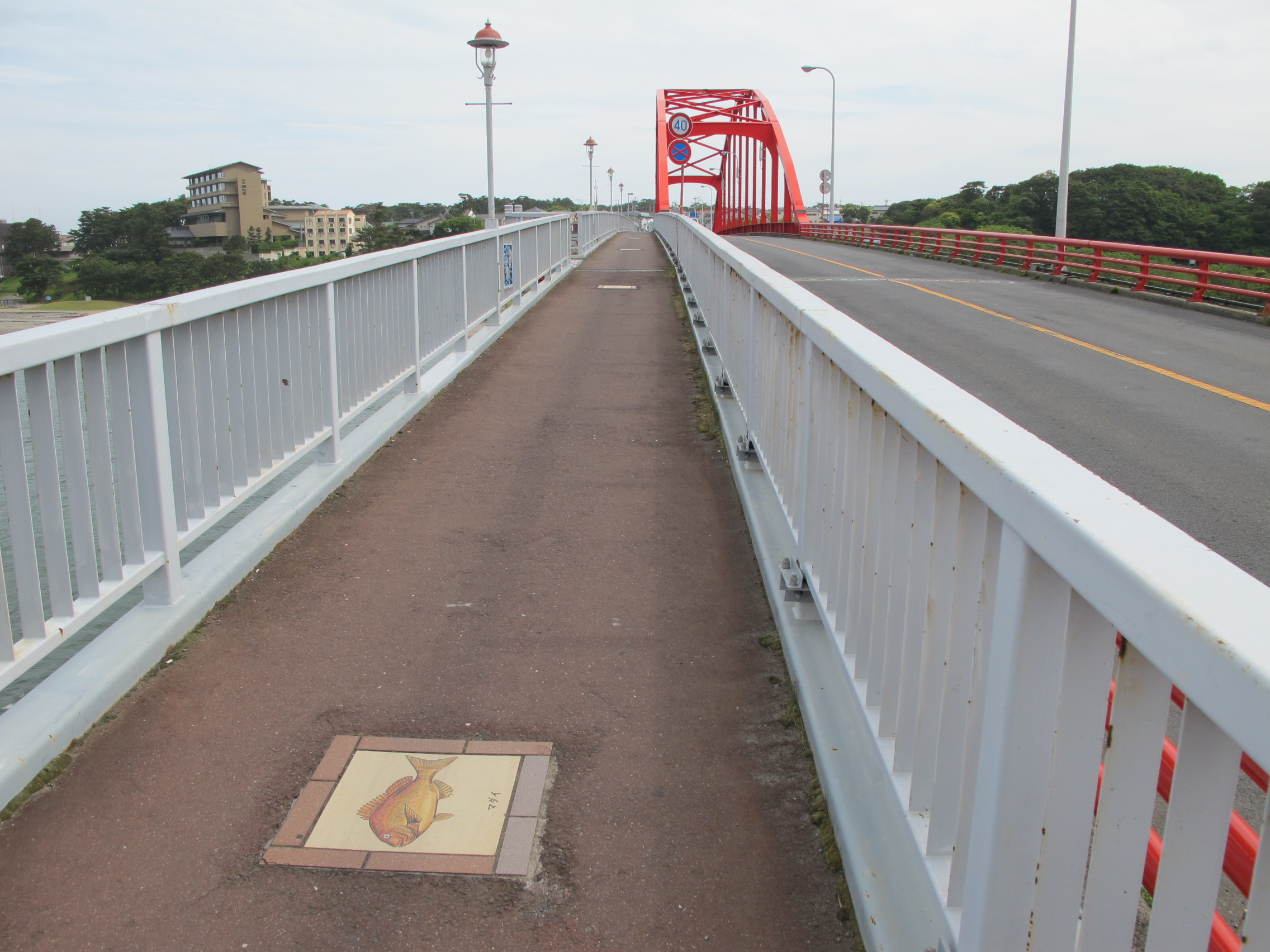 Walkway on the Kaimon Bridge